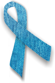 Denim ribbon - a symbol of solidarity with democratic movement in Belarus.